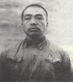 Peng Dehuai around the time of the Long March (c.1934-1935).